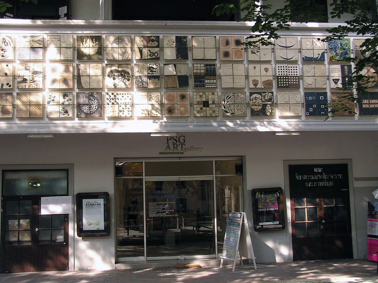 Faculty of Painting, Sculpture and Graphic arts, Silapakorn University, Thapra Palace Campus, Bangkok, Thailand